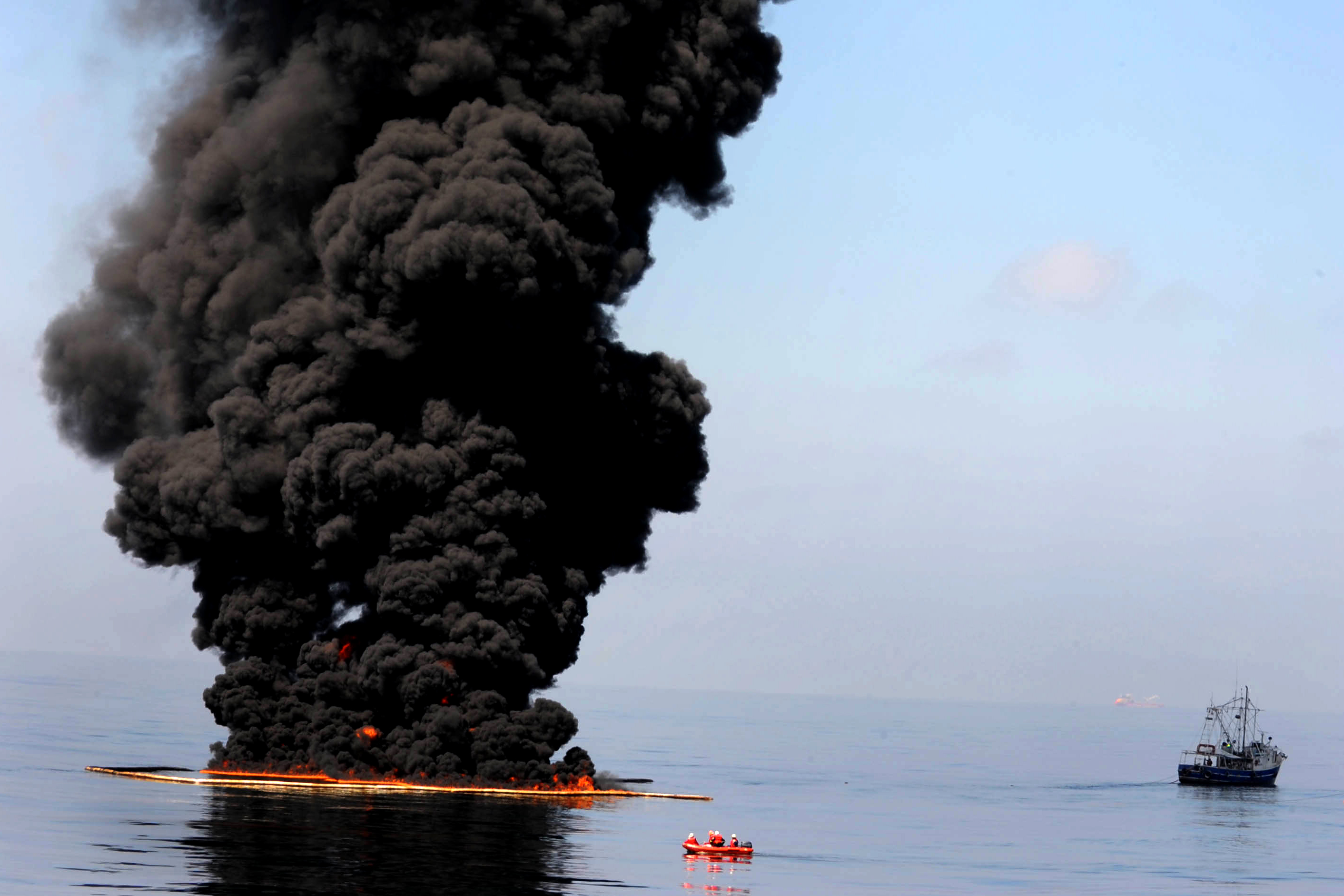 Dark clouds of smoke and fire emerge as oil burns during a controlled fire in the Gulf of Mexico, May 6, 2010. The U.S. Coast Guard, working with BP, local residents and other federal agencies, conducted the burn to help prevent the spread of oil following the explosion on Deepwater Horizon, an offshore drilling unit.